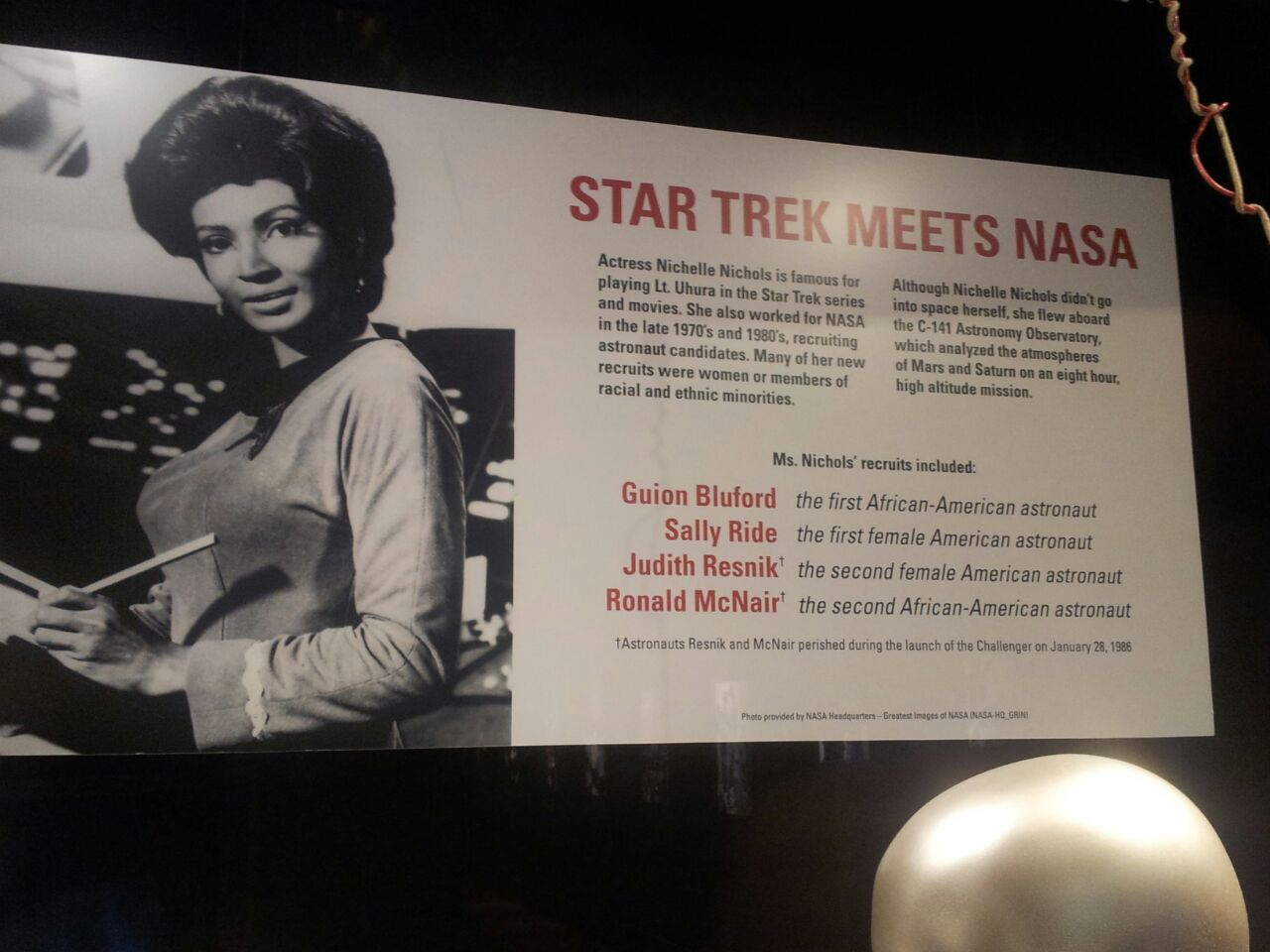 Nichelle Nichols in Museum of Science and Industry, Chicago